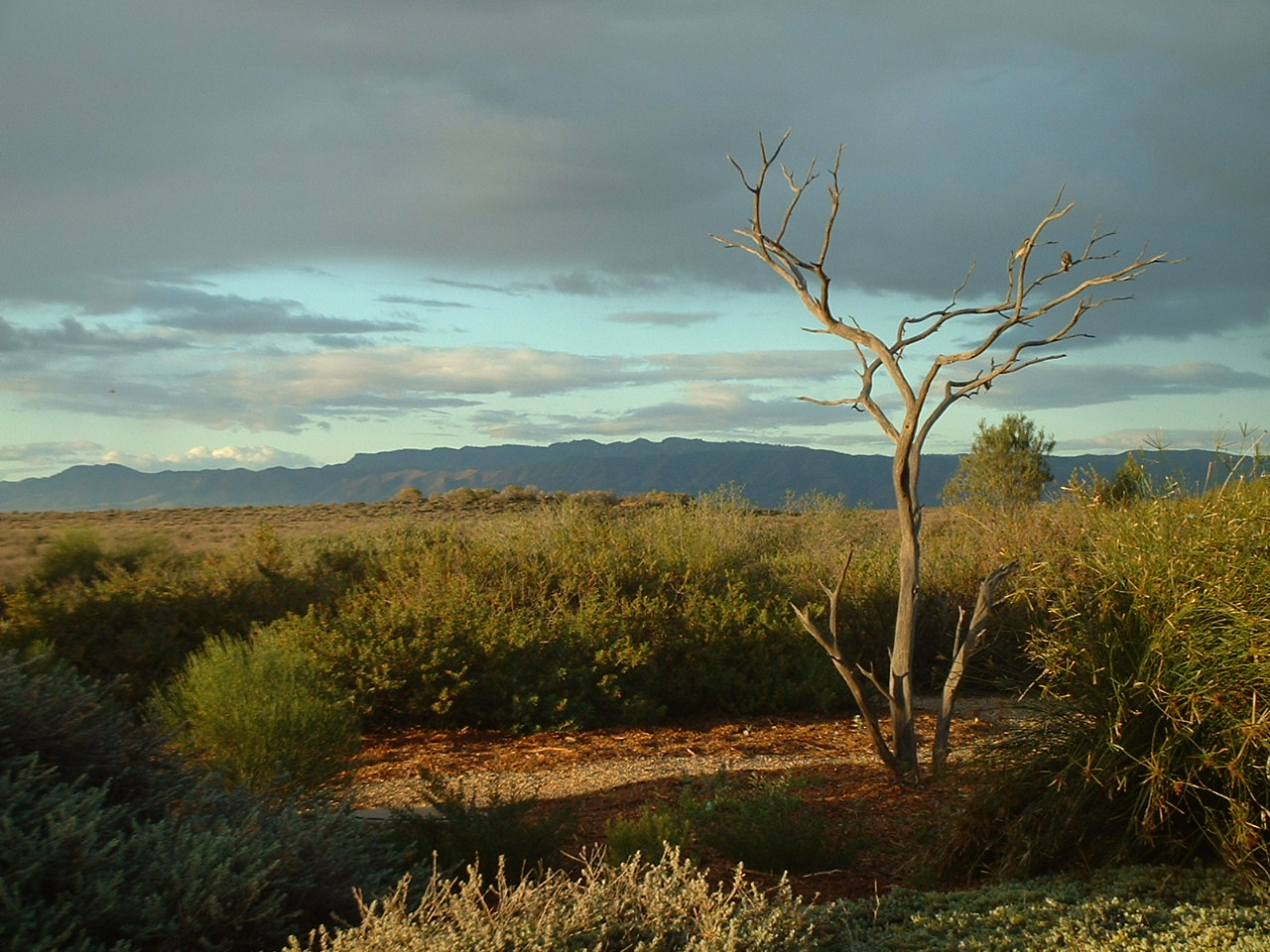 Birds in a tree at the Australian Arid Lands Botanic Garden, Port Augusta West, South Australia.